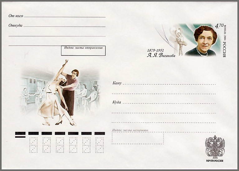 Russia, 2004. Envelope with commemorative stamp (EWCS) № 139. 125th anniversary of the birth of Agrippina Vaganova, ballet dancer, ballet master and pedagogue. Designer H. Betredinova.